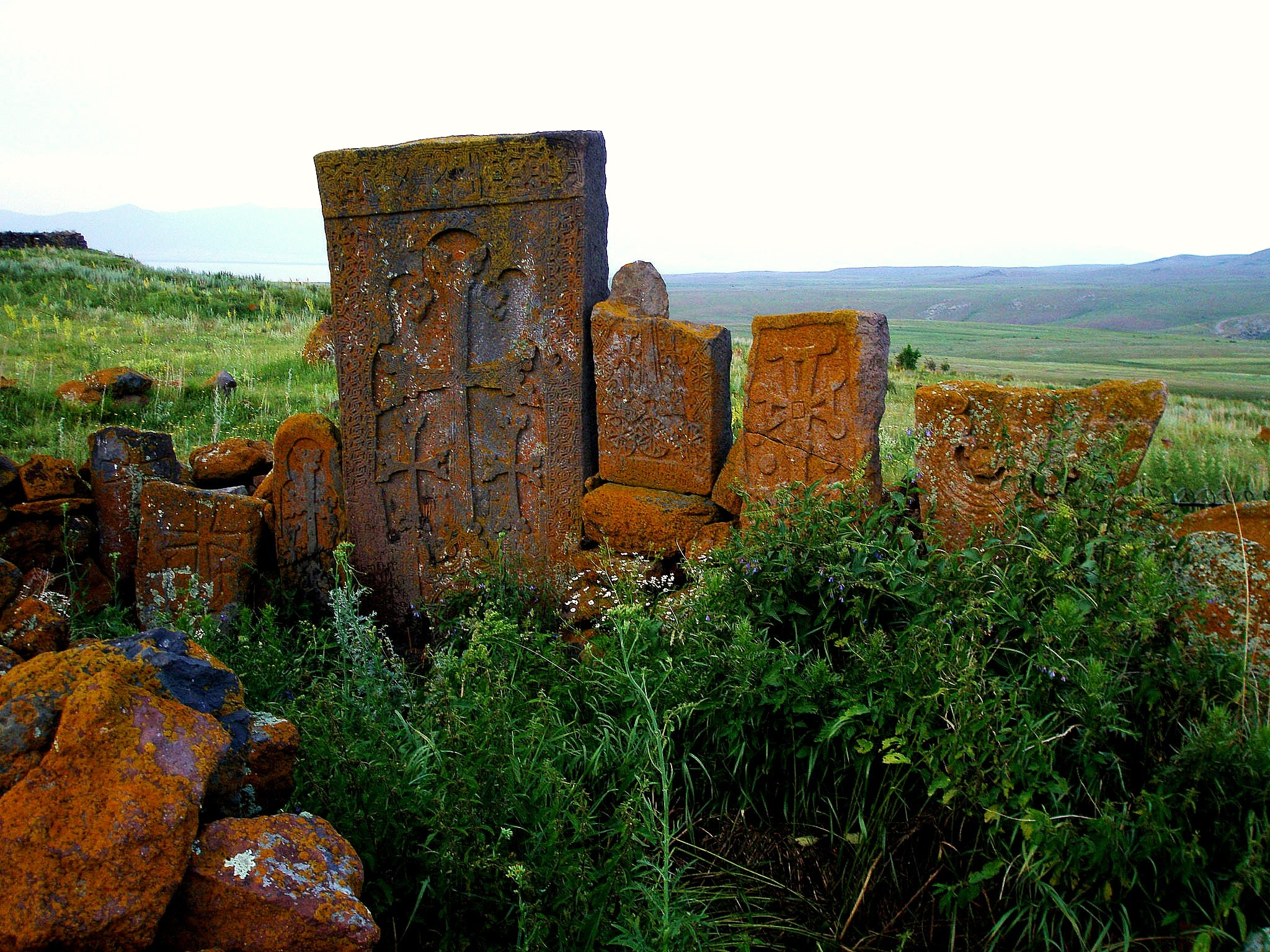 Yot Verk Matur memorial located in Khrbeh.